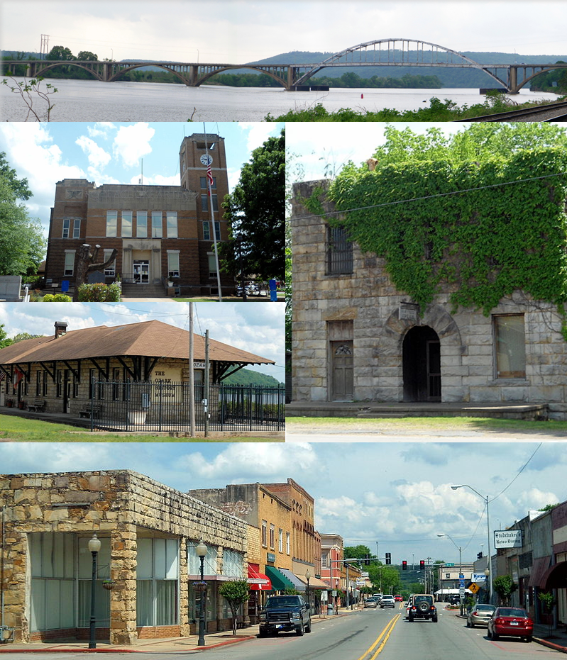 Created using the following PD files: File:Downtown Ozark, AR 001.jpg File:Franklin County Courthouse, Ozark, AR 002.jpg File:Highway 23 Bridge In Ozark, AR.jpg File:Ozark Depot, Ozark, AR.jpg File:Franklin County Jail, Ozark, AR.jpg